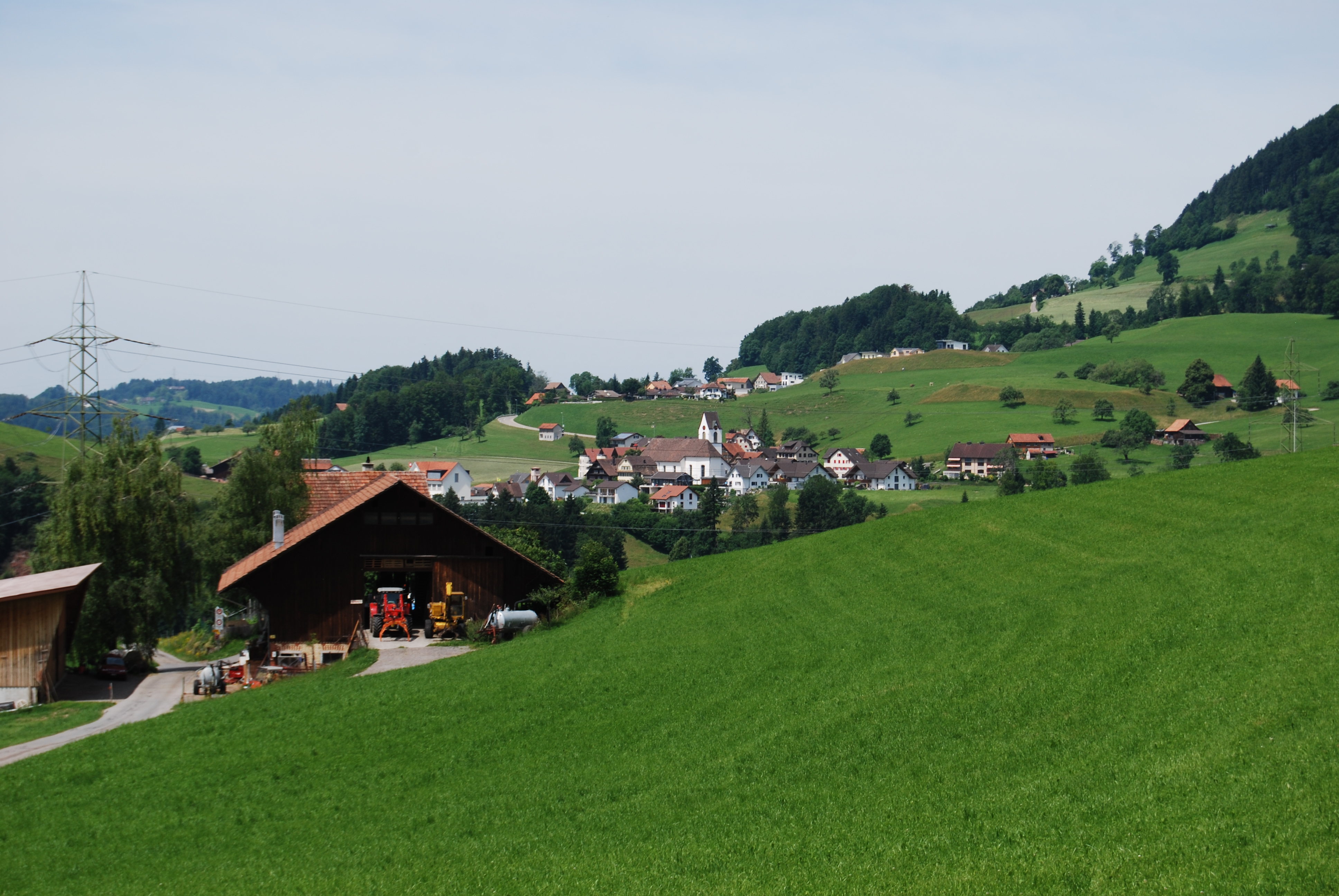 Goldingen, canton of St. Gallen, SwitzerlandEsperanto: Goldingen, Kantono Sankt-Galo, Svislando